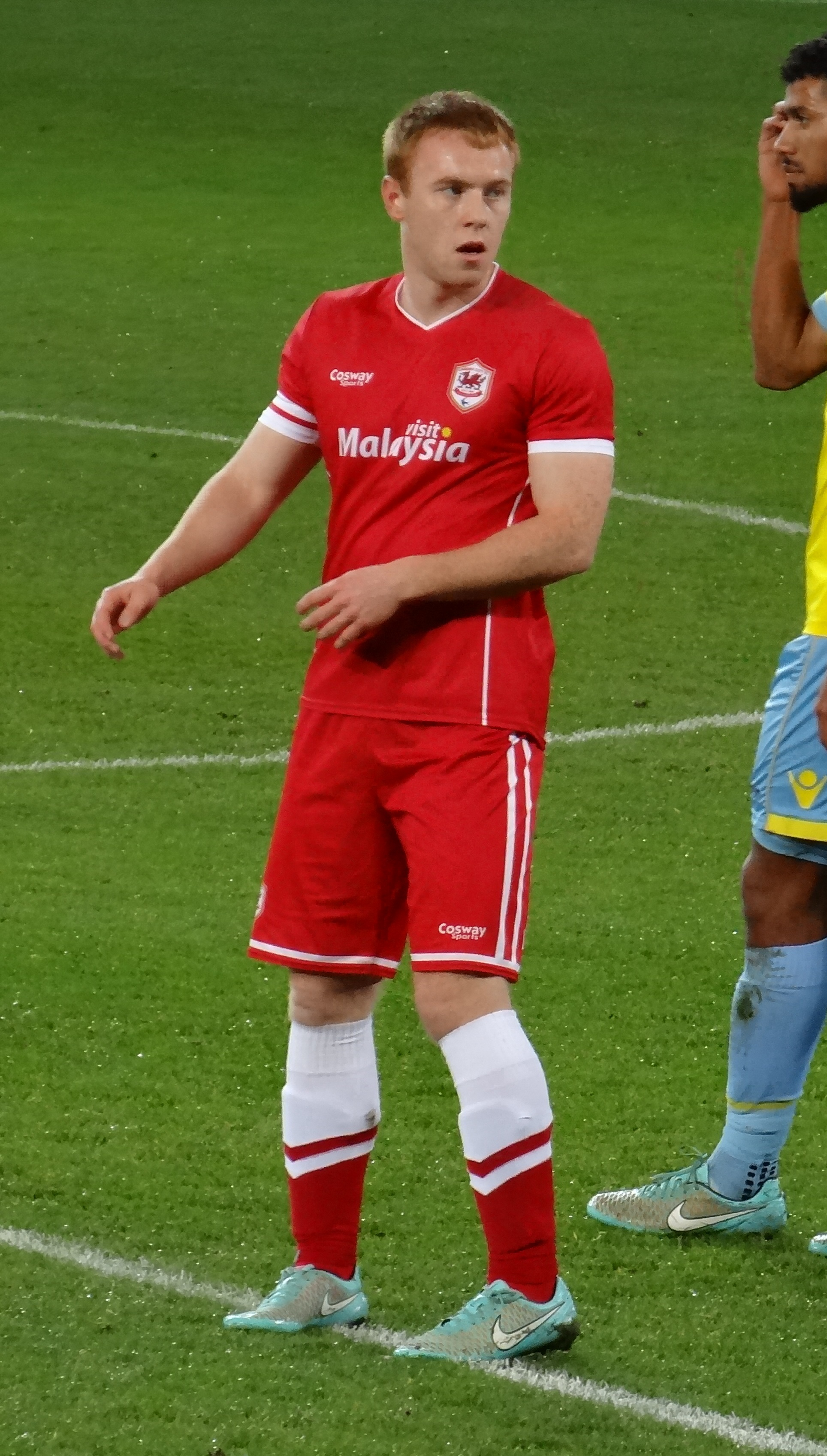 Footballer Danny Johnson (in red)